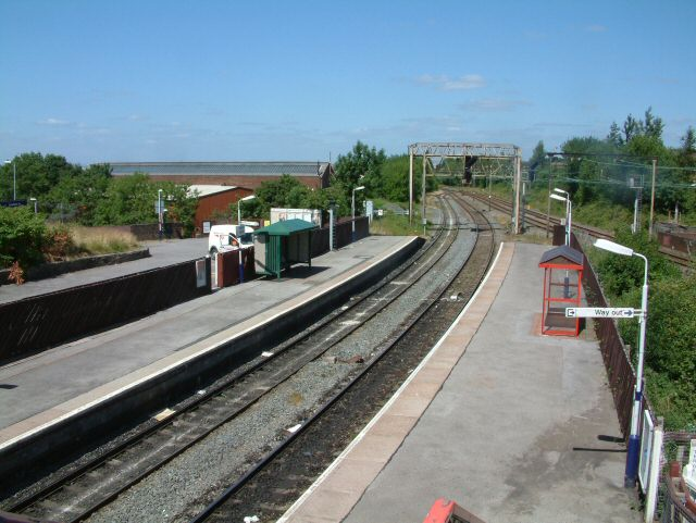 Hyde North Looking North from Hyde North station.